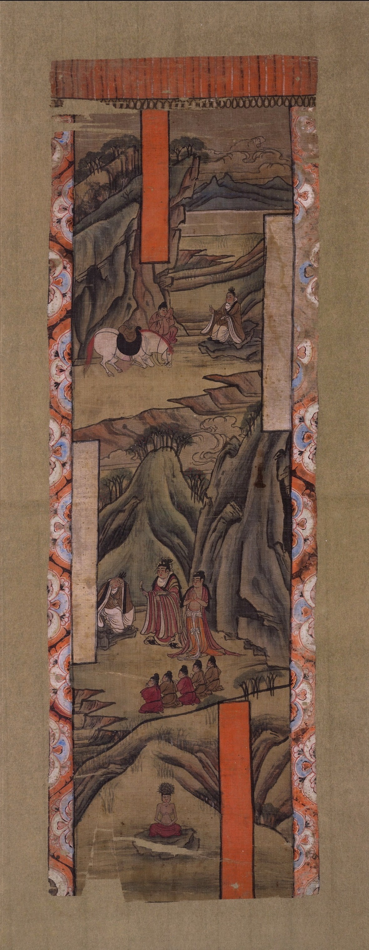 In this landscape painting, the young Sakyamuni cuts off his hair while attendants watch, ink and color on silk, from Dunhuang, Gansu province, China, dated to the Tang Dynasty (618–907 AD)